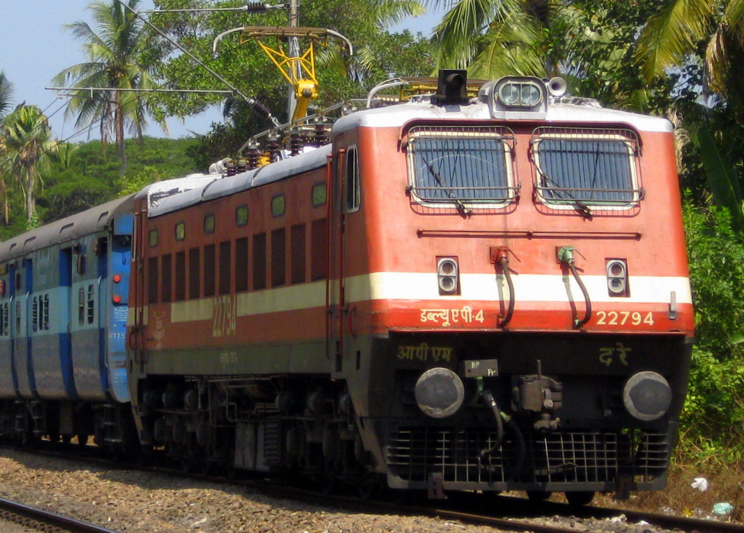 WAP-4 belonging to Royapuram Electric Shed hauls train number 12644 Swarna Jayanti Express.